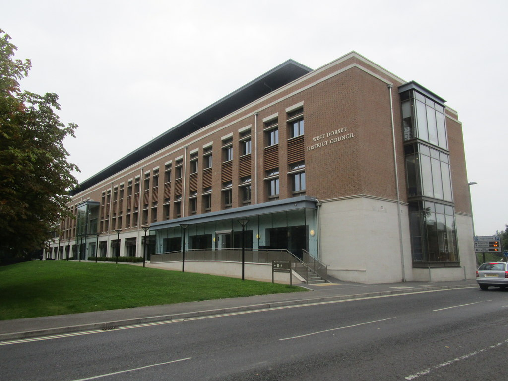 West Dorset District Council Offices